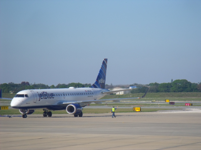 A JetBlue Embaier e190 pushing back for departure at Sarasota Bradenton Intl Airport.